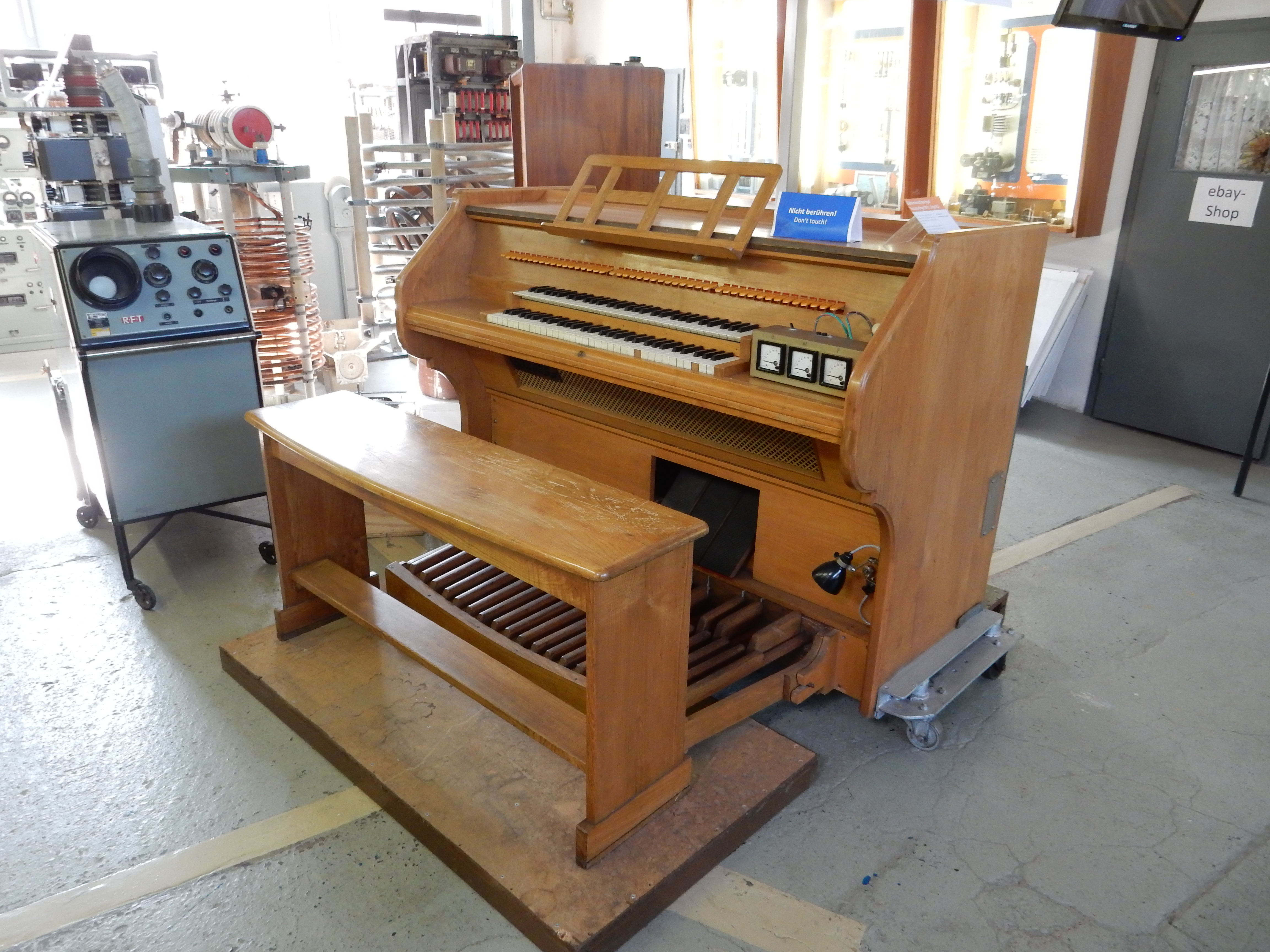 Electronic organ EKI 1